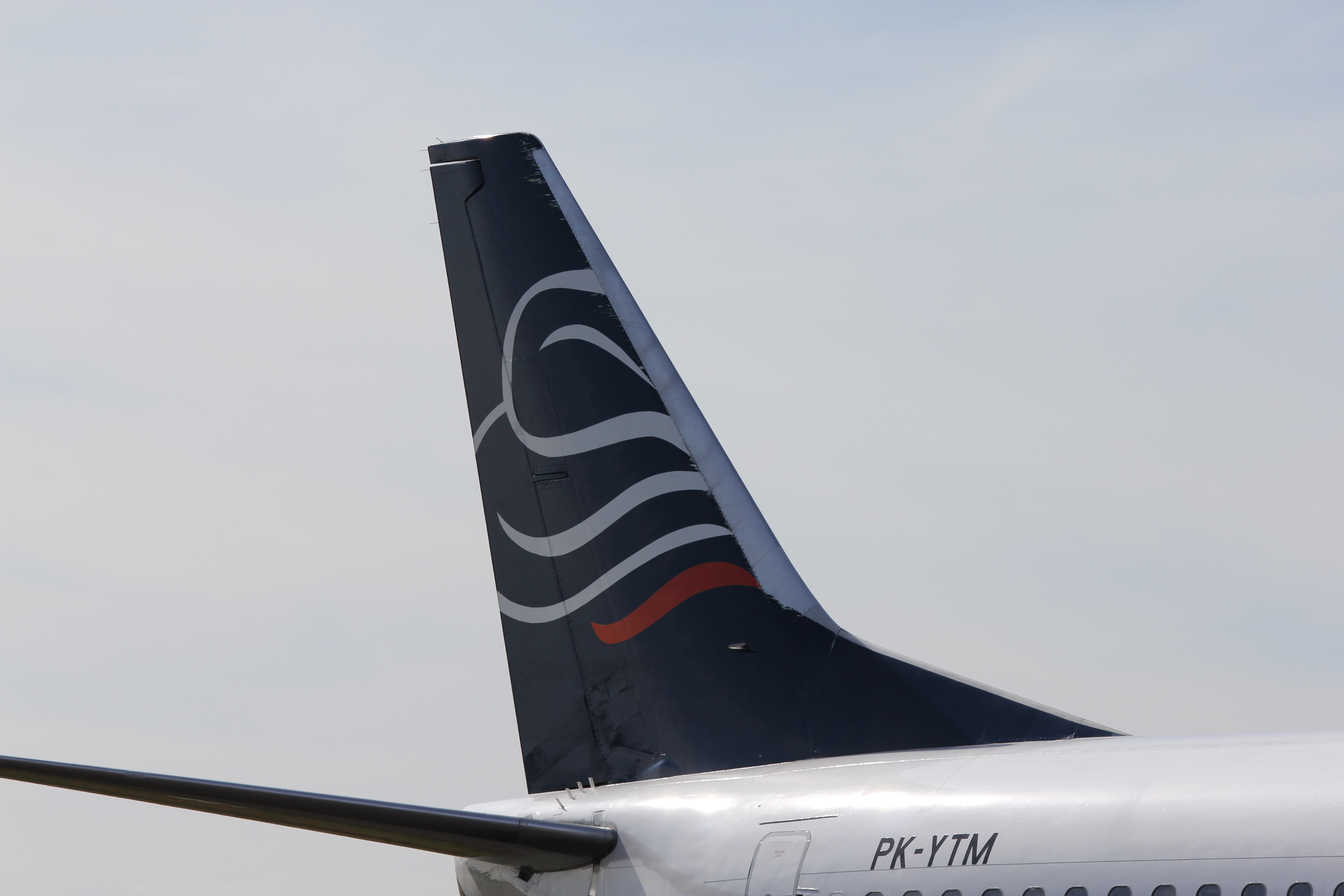 The Batavia Air tail fin in its old livery